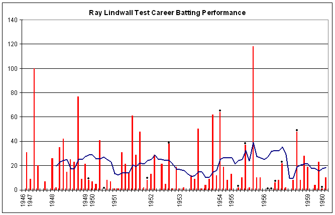 Test batting chart of Ray Lindwall. Red columns are the runs in the innings. Blue dots indicate not outs. Blue line is average in the last ten innings. Thanks to Raven4x4x for providing the template.